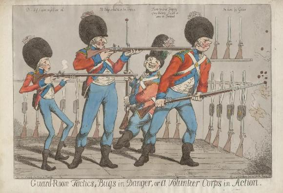 Guard-Room tactics; Bugs in danger, or a Volunteer Corps in action. A caricature of the British Volunteer Corps of the Napoleonic era.